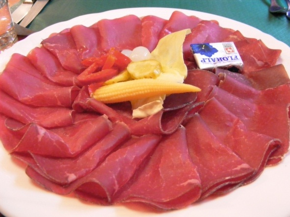 Bündnerfleisch